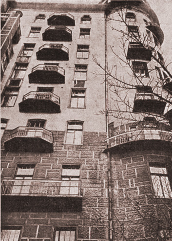 a photo of a building in Kyiv known as "the Ginzburg skyscraper"